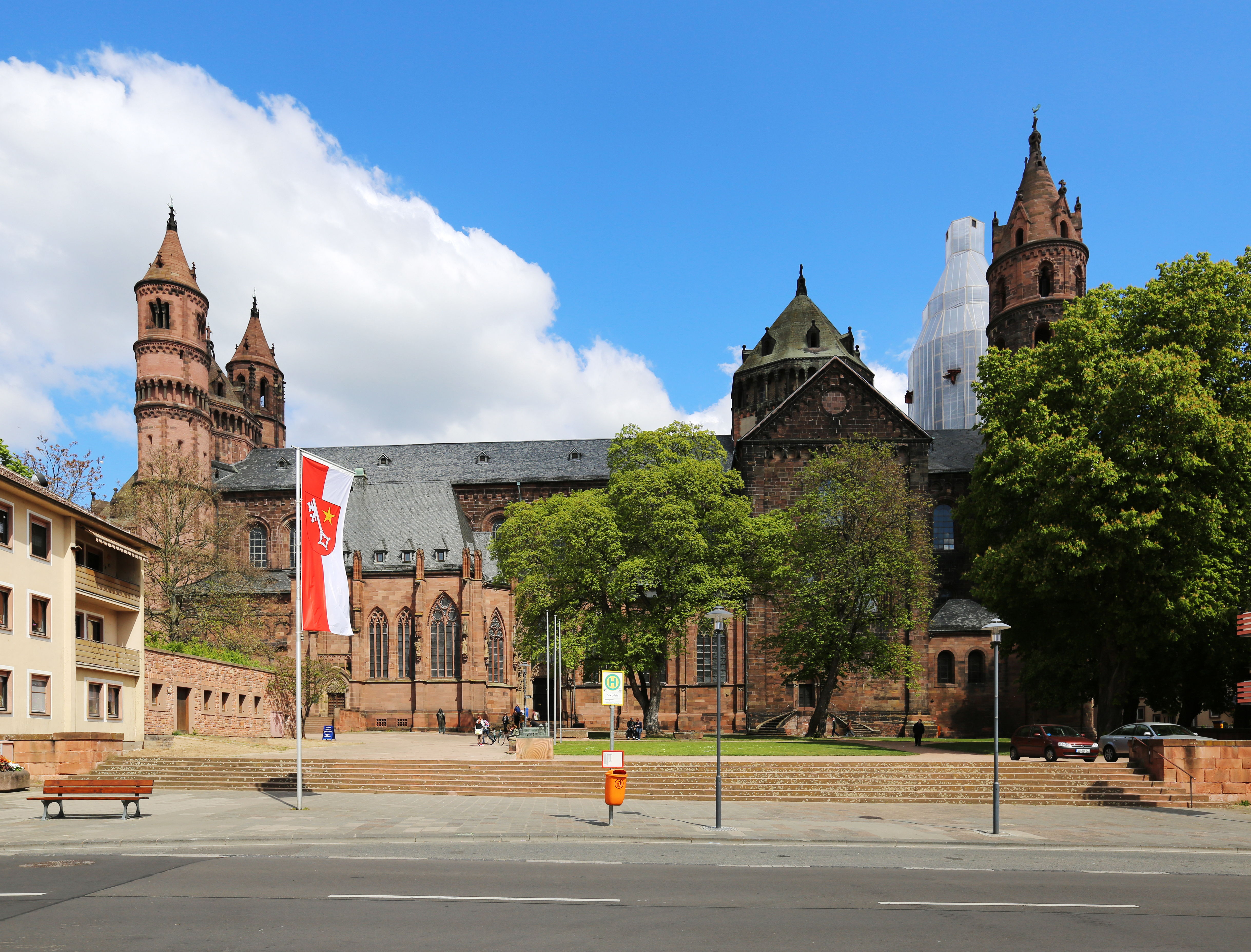 Worms Cathedral (Cathedral of St. Peter) from south